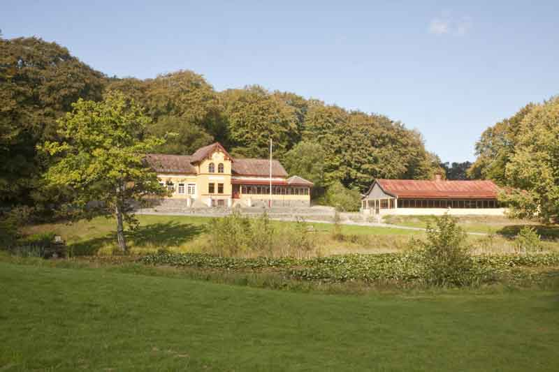 Tolne Skovpavillon situated in Tolne Skov in Vendsyssel, Denmark